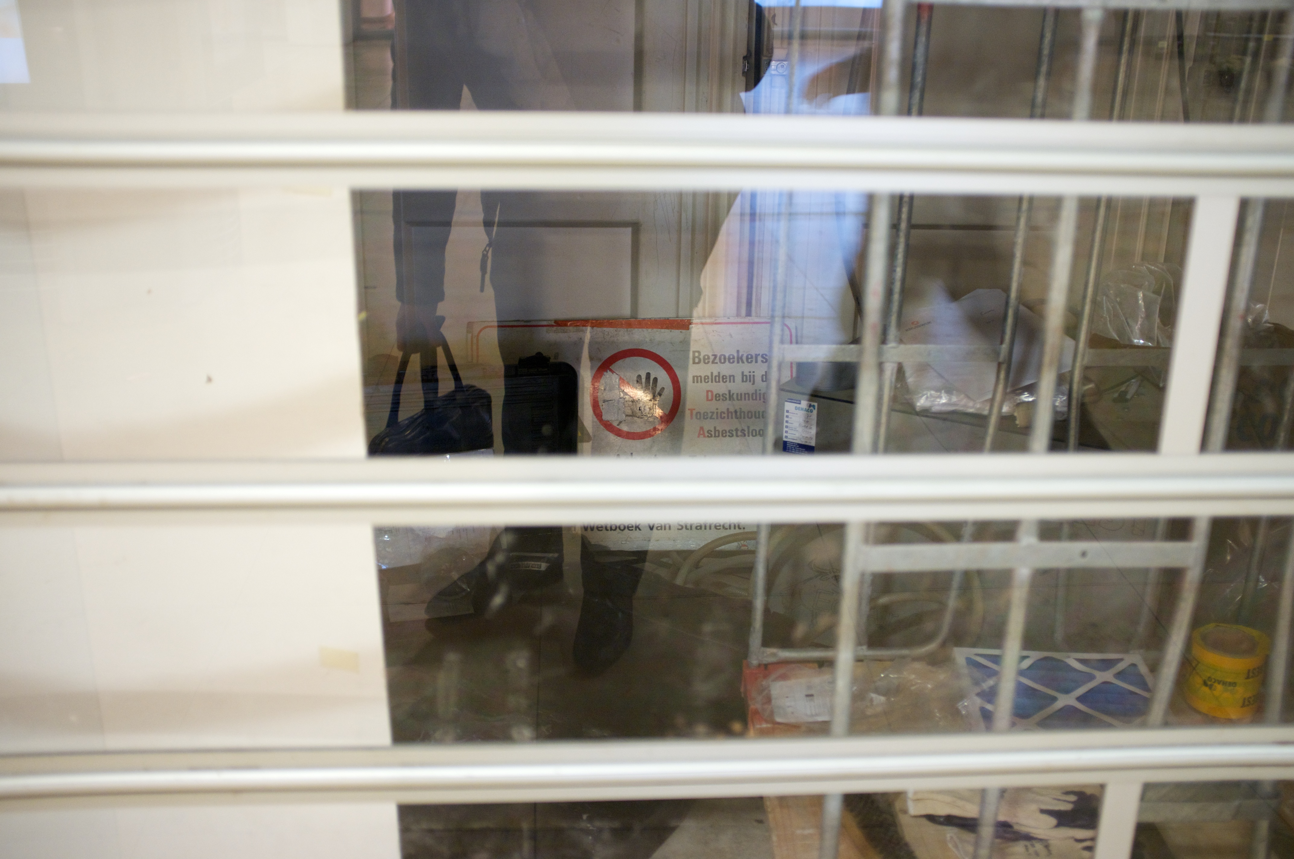 The rebuilding of the shopping mall Hoog Catharijne in Utrecht also involves asbestos removal. The warning signs are barely visible for passers-by.